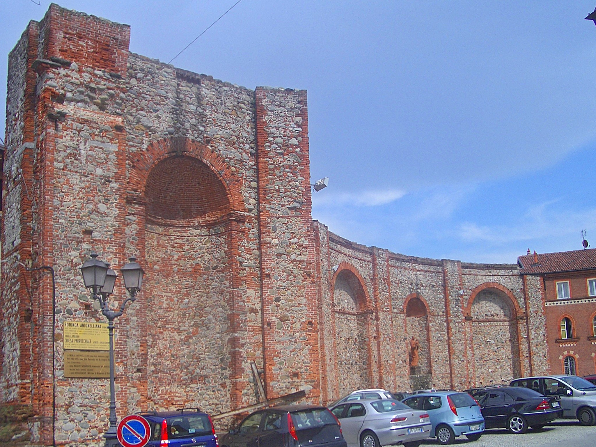 Castellamonte, "Rotonda Antonelliana" (project by Alessandro Antonelli)